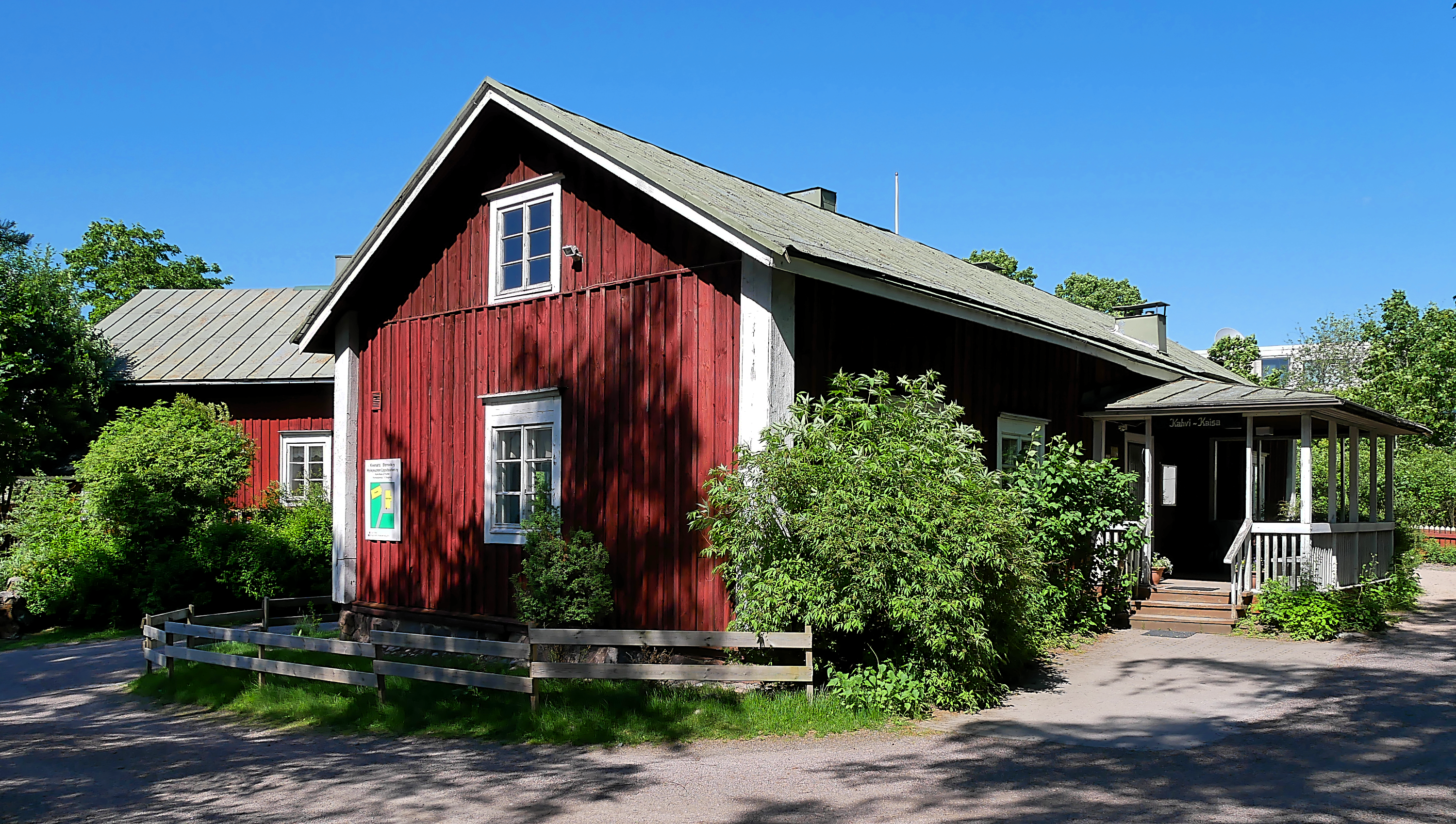 The Kahvi-Kaisa House in Kivenlahti, Espoo, Finland